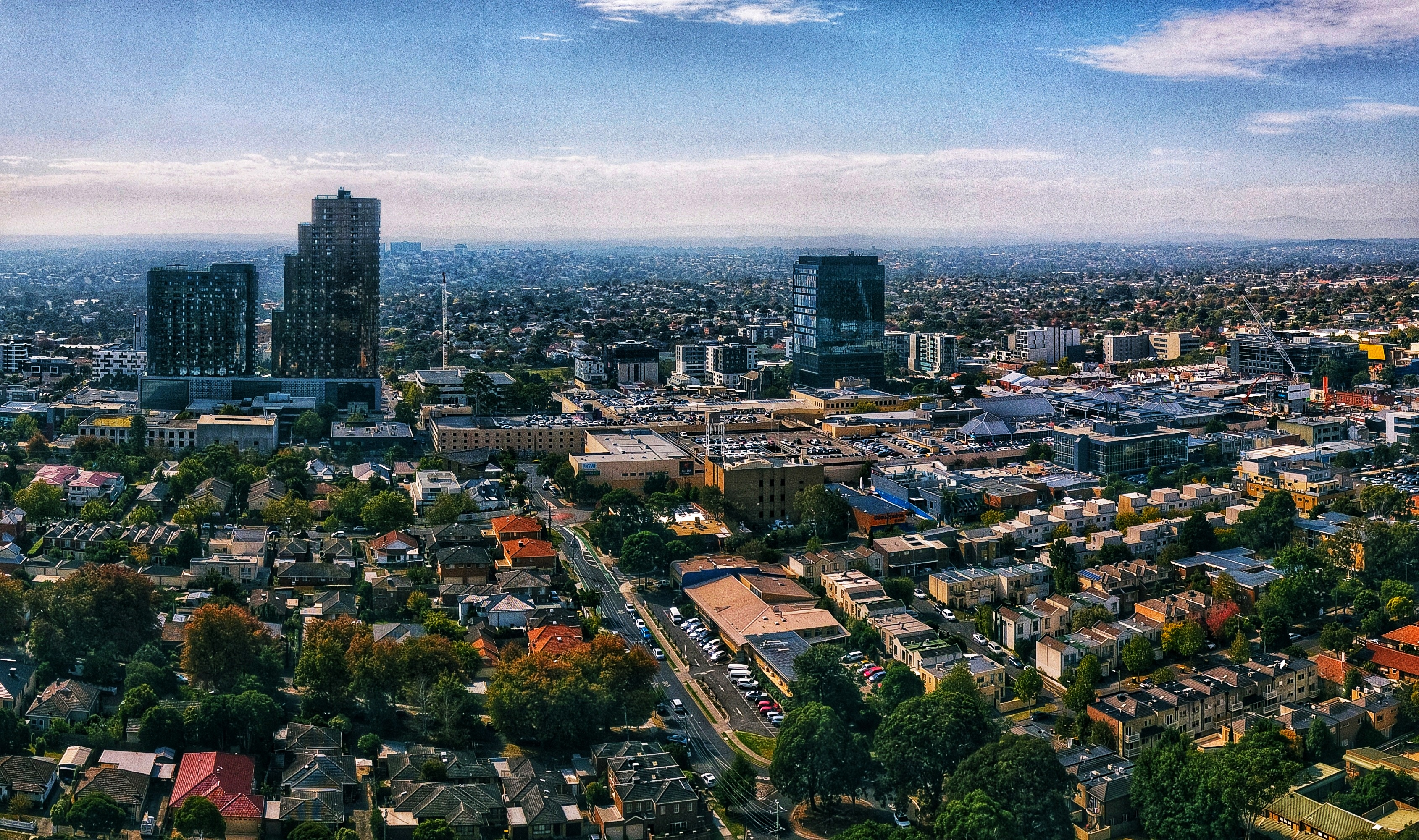 Aerial panorama of Box Hill. Taken April 2018.